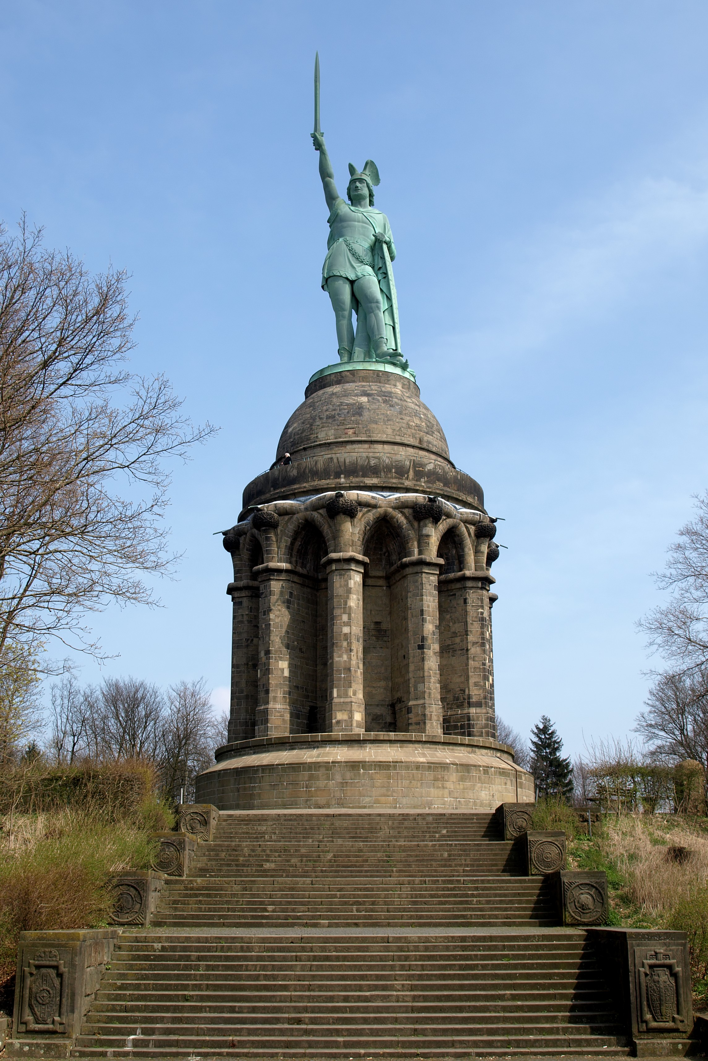 View of the Monument of Hermann in Teutoburg Forest, Germany